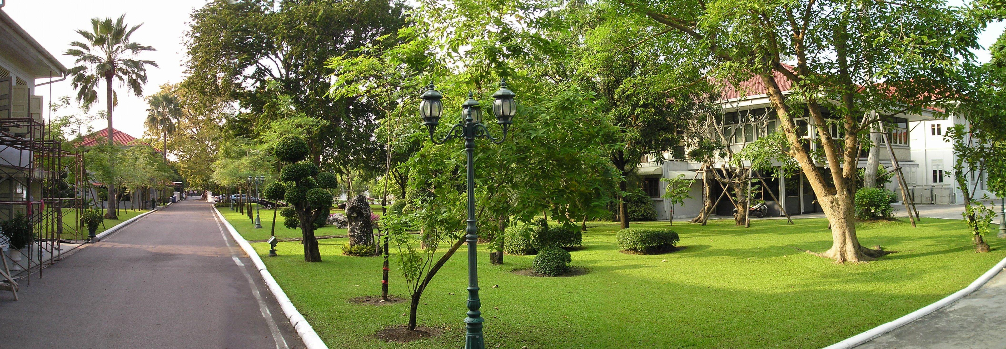 Panoramic views of Bangkok